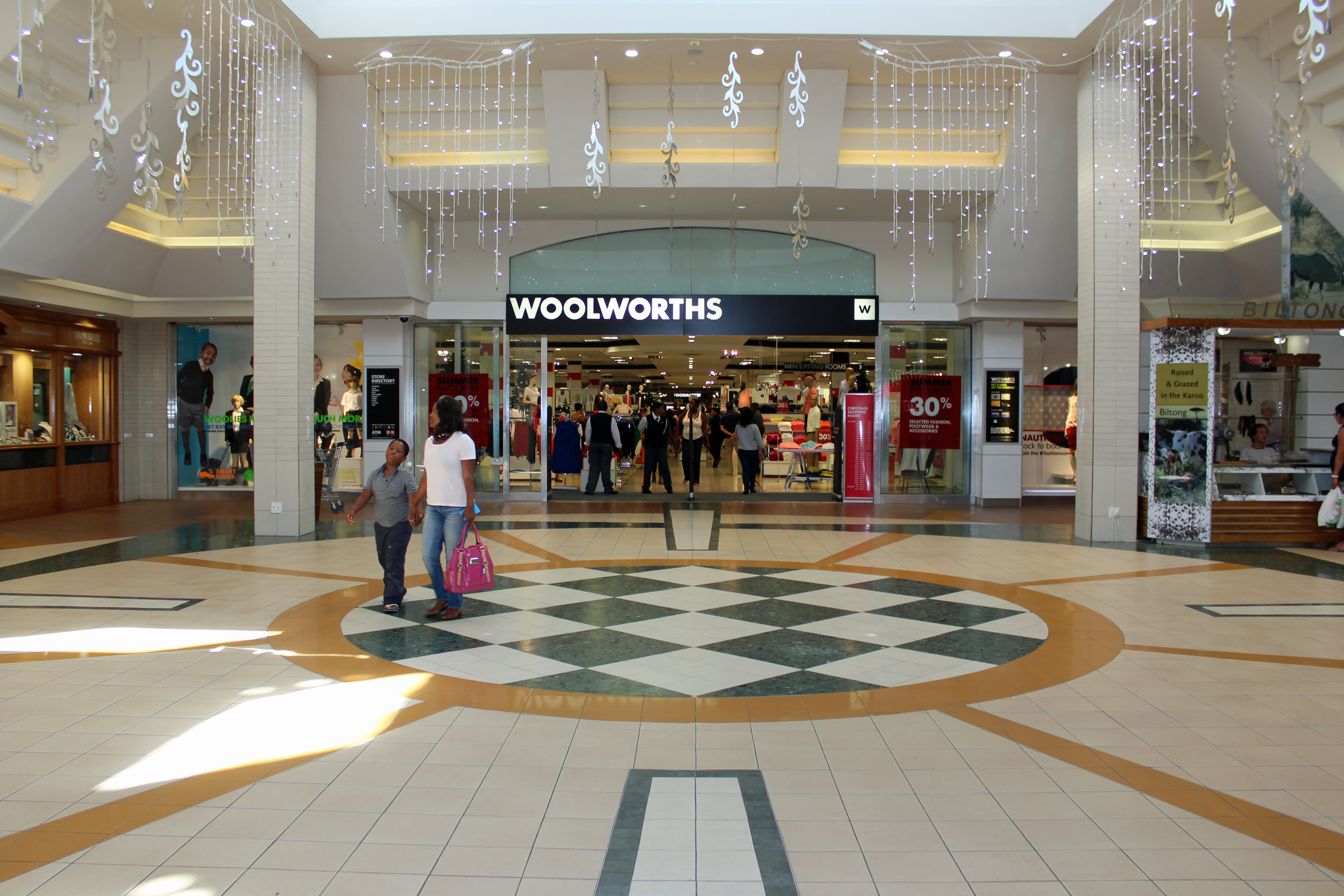 Entrance to Woolworths in Somerset Mall, South Africa